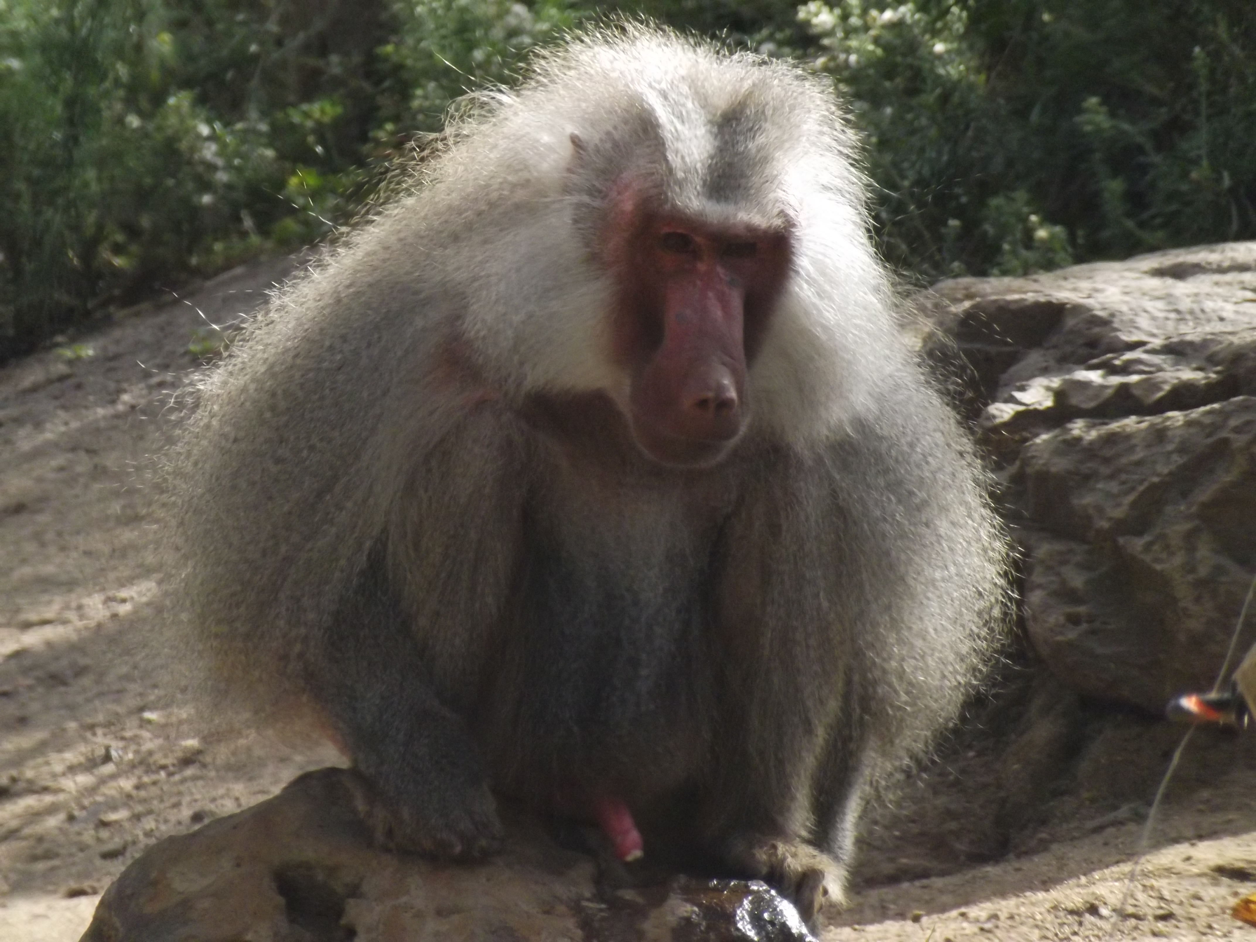 A male Hamadryas baboon (Papio hamadryas) at the Melbourne Zoo.